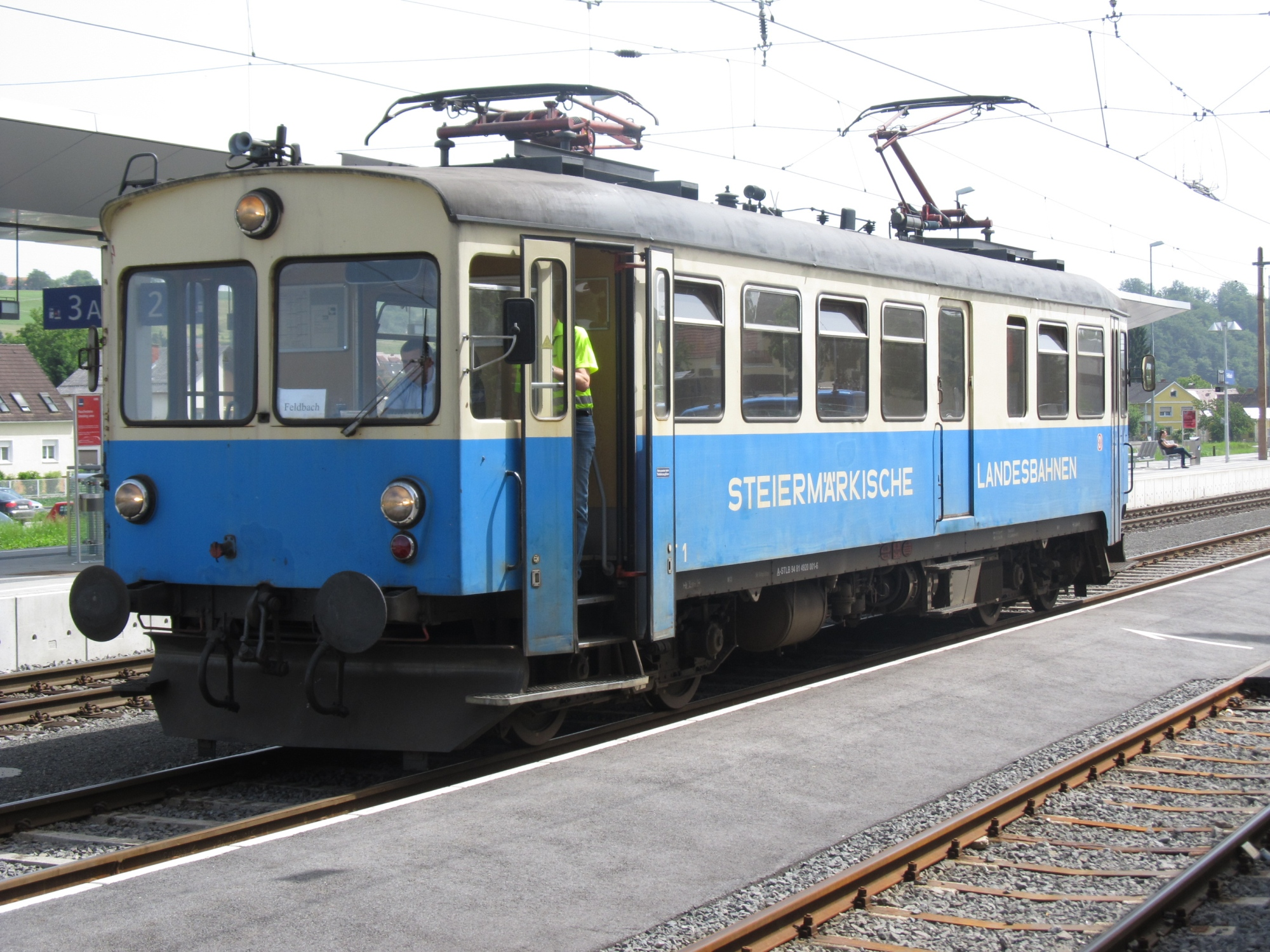 train station Feldbach in Styria